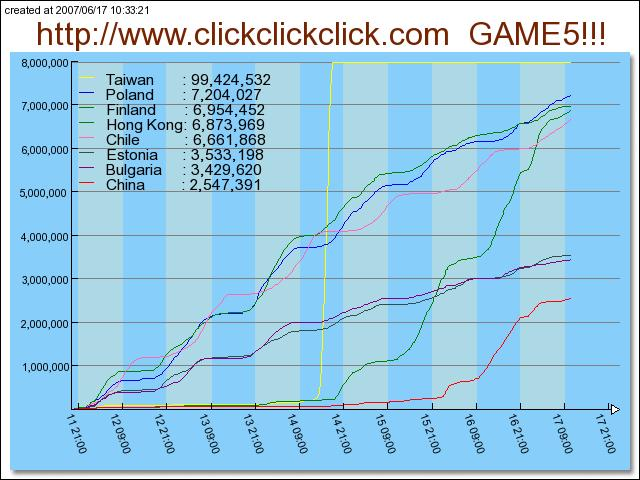 Golden L-shaped Curve